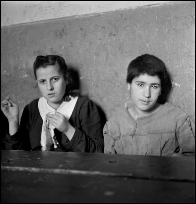 Young prostitutes in the Albergo dei Poveri reformatory. Prostitutes, vagrants, and thieves were also sent there by the Naples Juvenile Court and taught embroidery by Catholic nuns. Over-population and misery have aggravated the problem of juvenile deliquency, which has increased in most countries because of the war and the aftermath of bad living conditions.